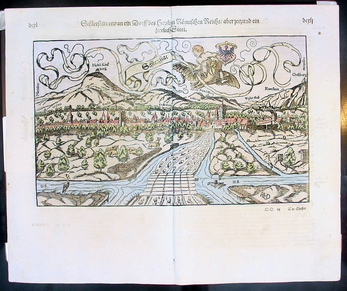 Sebastian Münster (1488-1552) was a German cartographer, cosmographer, and Hebrew scholar whose Cosmographia (1544; "Cosmography") was the earliest German description of the world and a major work in the revival of geographic thought in 16th-century Europe. Altogether, about 40 editions of the Cosmographia appeared between 1544 and 1628; Münster was a major influence on his subject for over 200 years. Münster acquired the material for his book in three ways. He used all available literary sources. He tried to obtain original manuscript material for description of the countryside and of villages and towns. Finally, he obtained further material on his travels (primarily in south-west Germany, Switzerland, and Alsace). Cosmographia not only contained the latest maps and views of many well-known cities, but also included an encyclopaedic amount of detail about the known -- and unknown -- world, and was undoubtedly one of the most widely read books of its time. Aside from the well-known maps present in the Cosmographia, the text is thickly sprinkled with vigorous views: portraits of kings and princes, costumes and occupations, habits and customs, flora and fauna, monsters, wonders, and horrors.